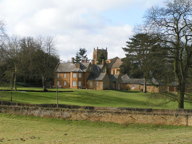 Harlestone House and Church. From the east.